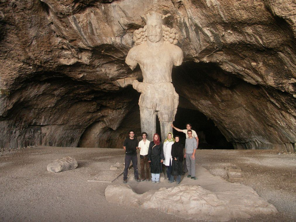 The Colossal Statue of Sassanid king Shapur I.